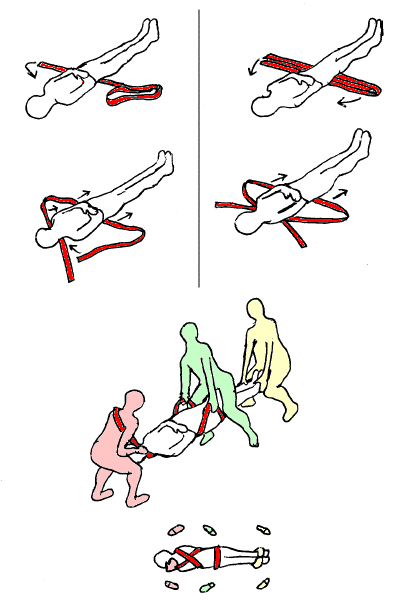 Relevage d'une victime plat-dos à l'aide d'une sangle. Lifting a casualty lying on its back with a strap. Auteur/author : Christophe Dang Ngoc Chan (cdang)